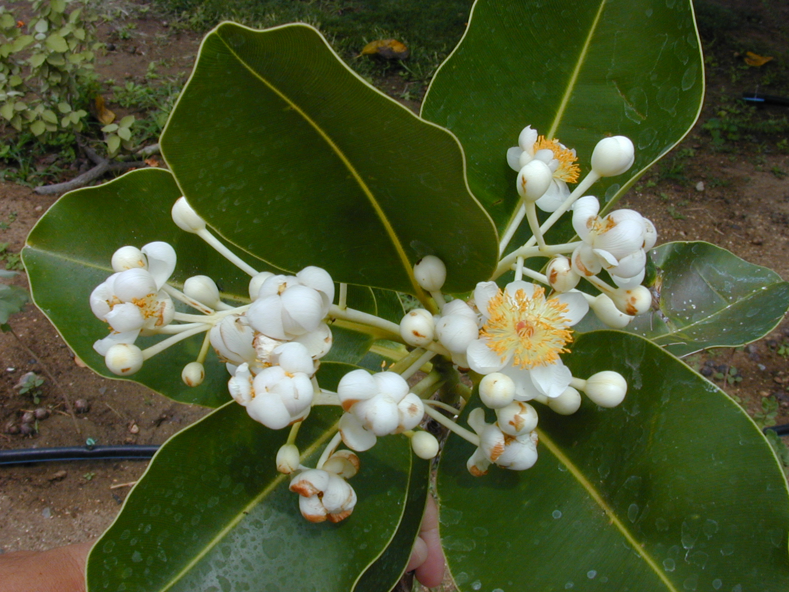 Calophyllum inophyllum (flowers and leaves). Location: Maui, Kalepolepo Kihei